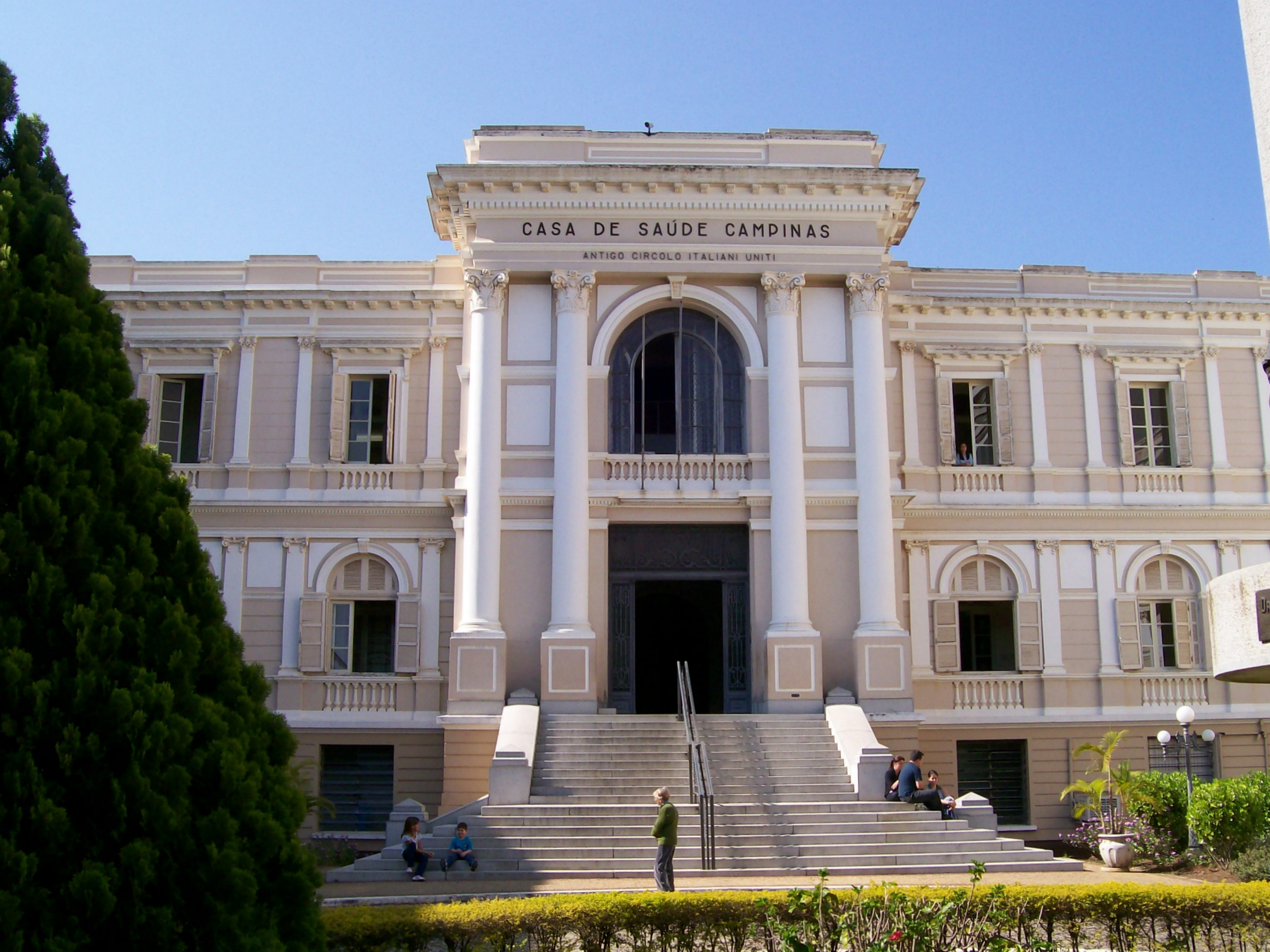 Casa de Saúde Campinas Hospital main façade.